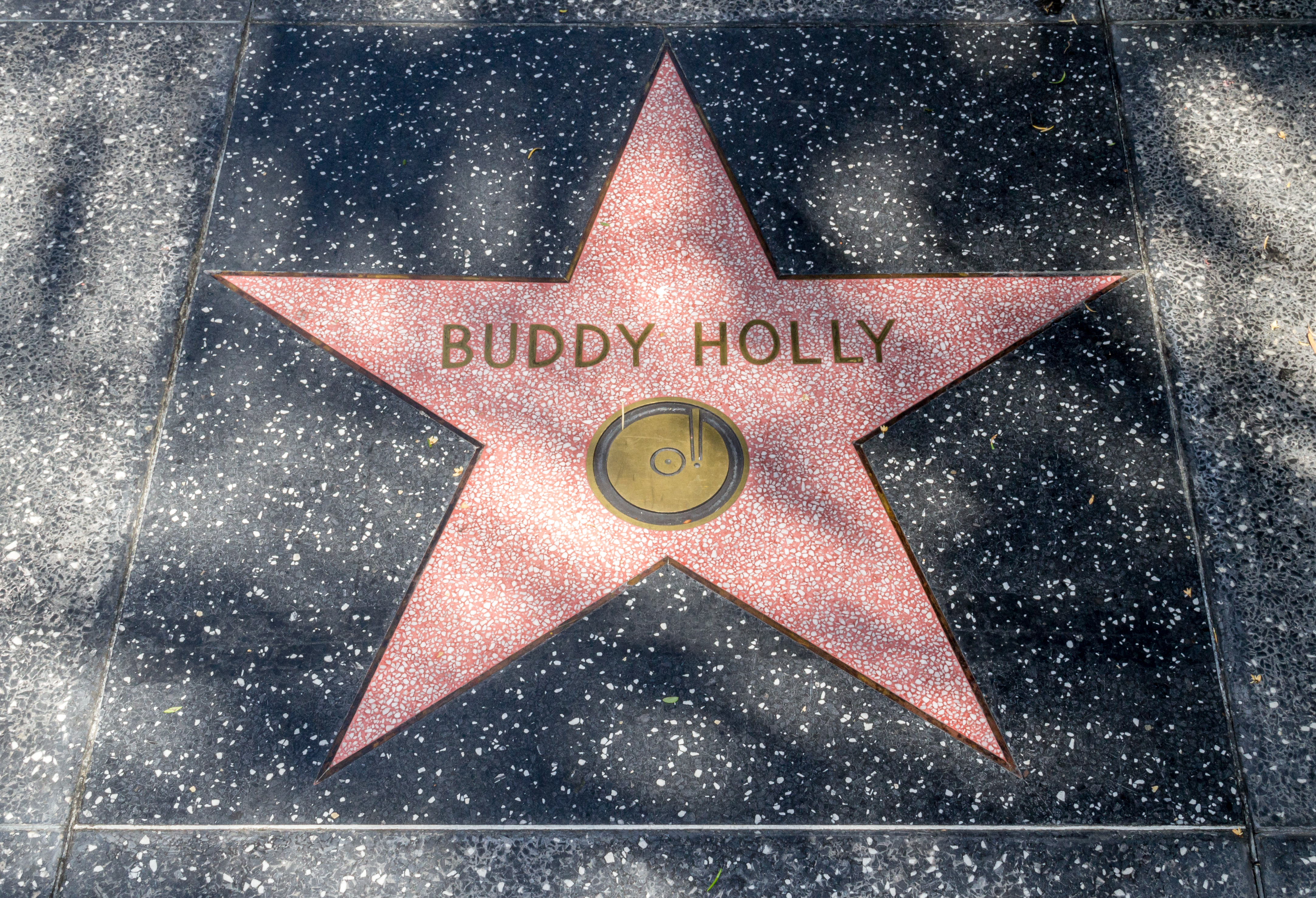 Star “Buddy Holly” at the Hollywood Boulevard in Los Angeles, California, USA